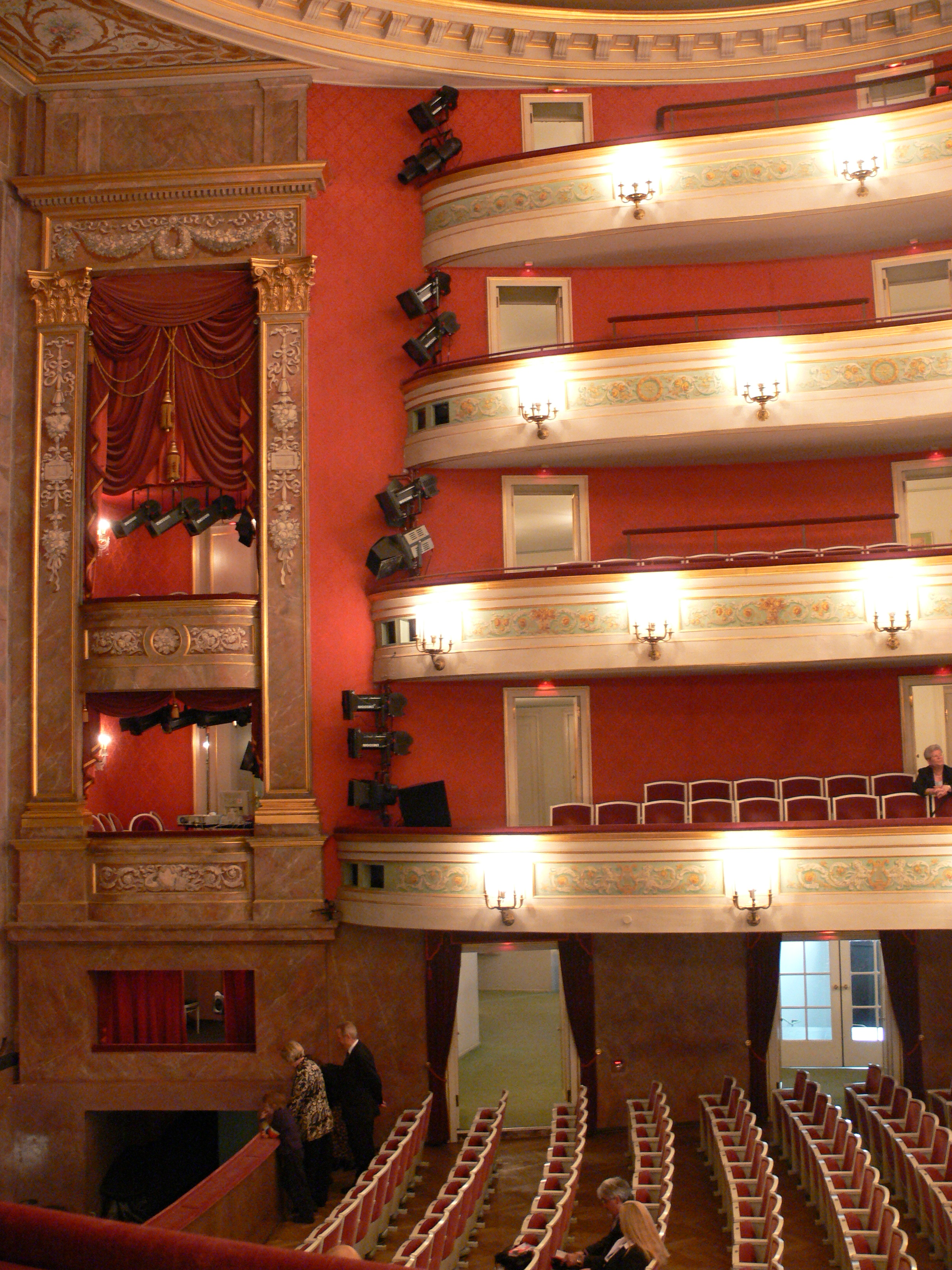 Munich, Gärtnerplatz State Theatre, auditorium